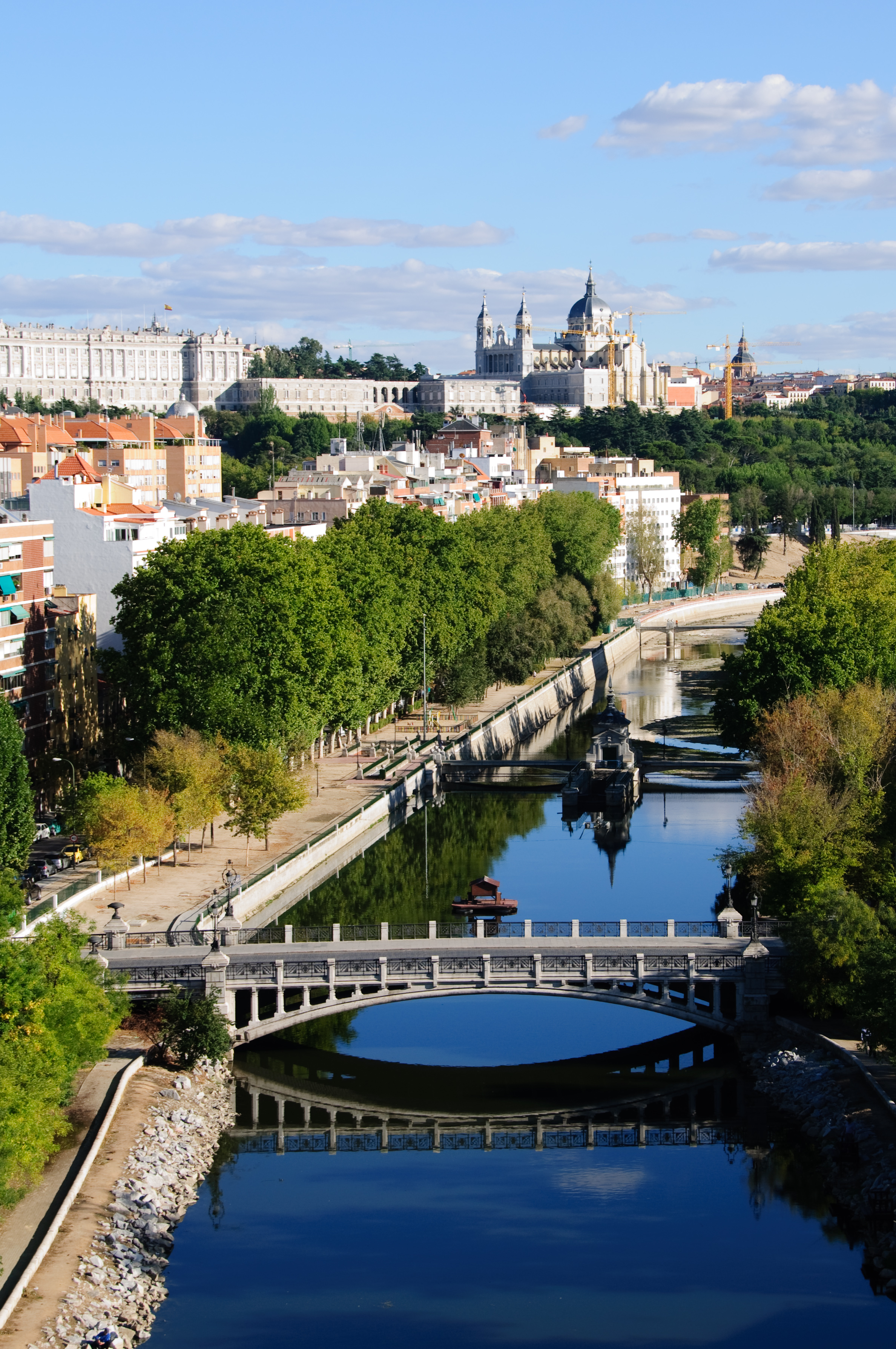 Manzanares River in Madrid (Spain).